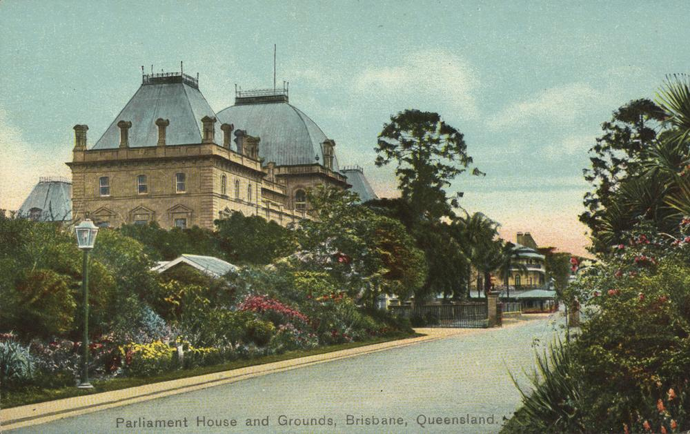 Parliament House and grounds, Brisbane, ca. 1906. Part of the Coloured Shell Series of postcards.